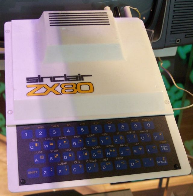 A Sinclair ZX 80 computer